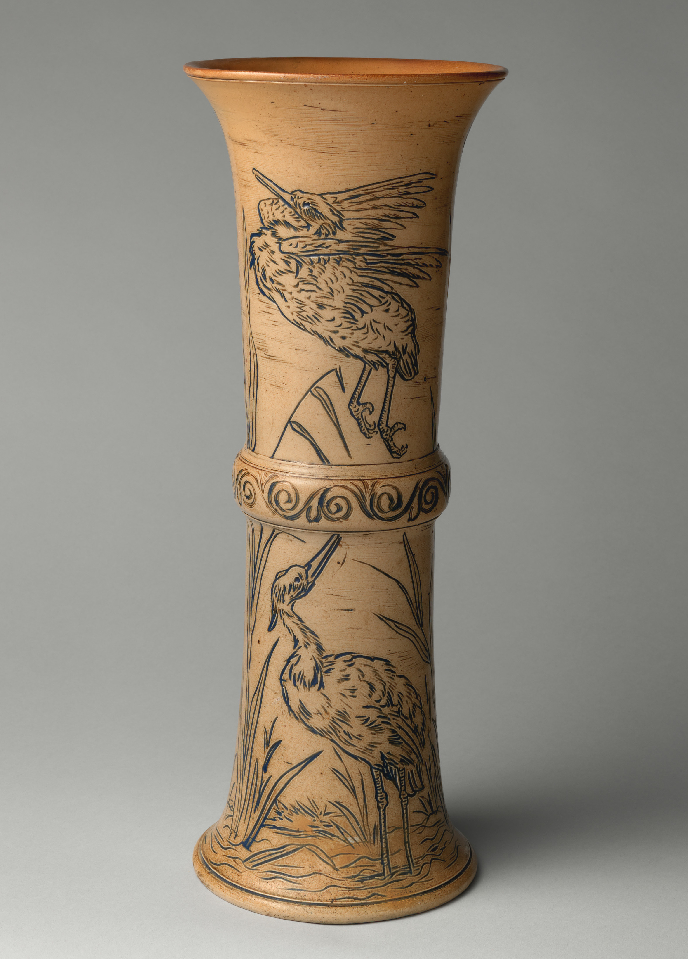 British, Lambeth, London; Vase; Ceramics-Pottery